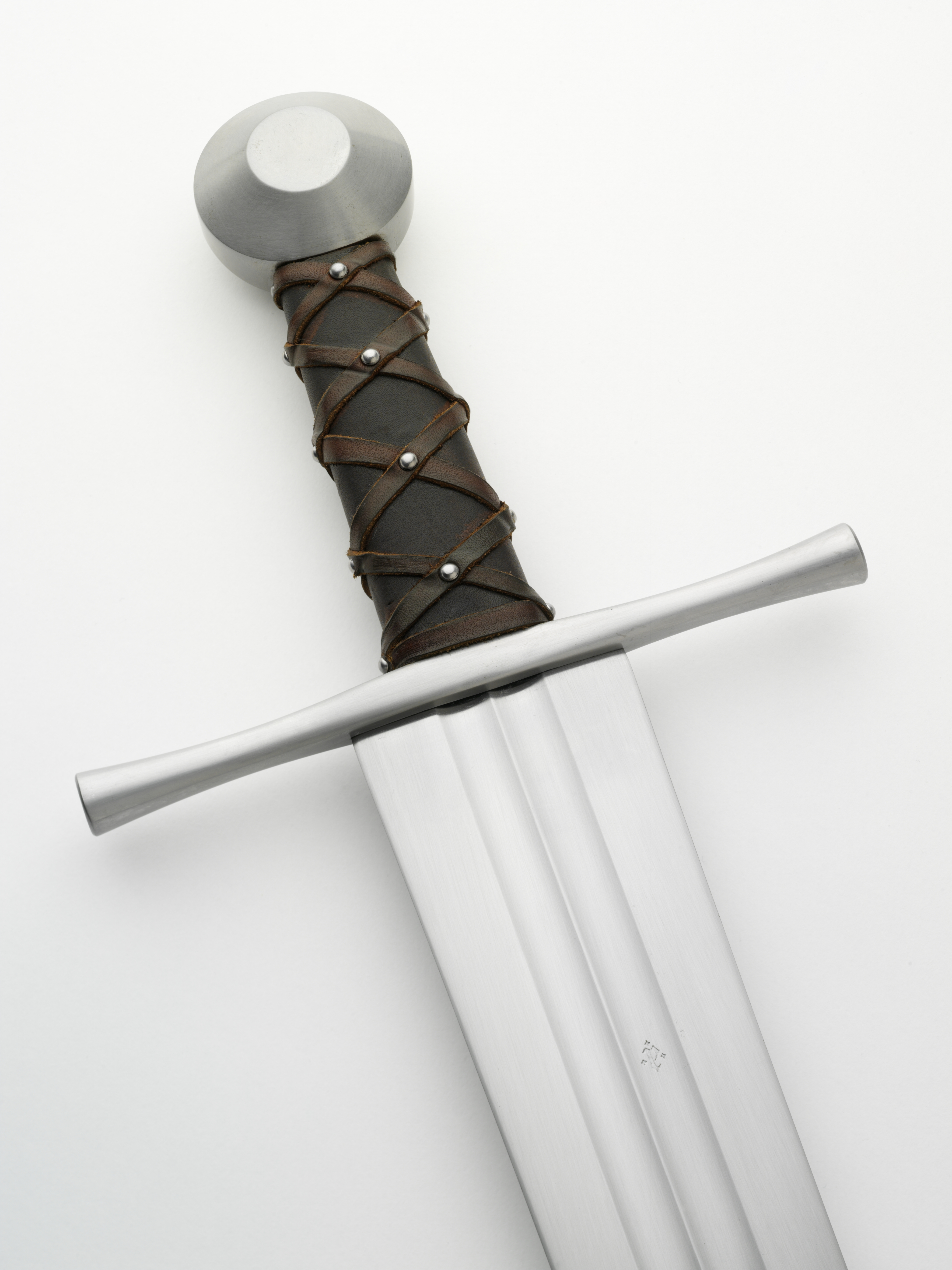 The Vigil Limited Edition Medieval Sword